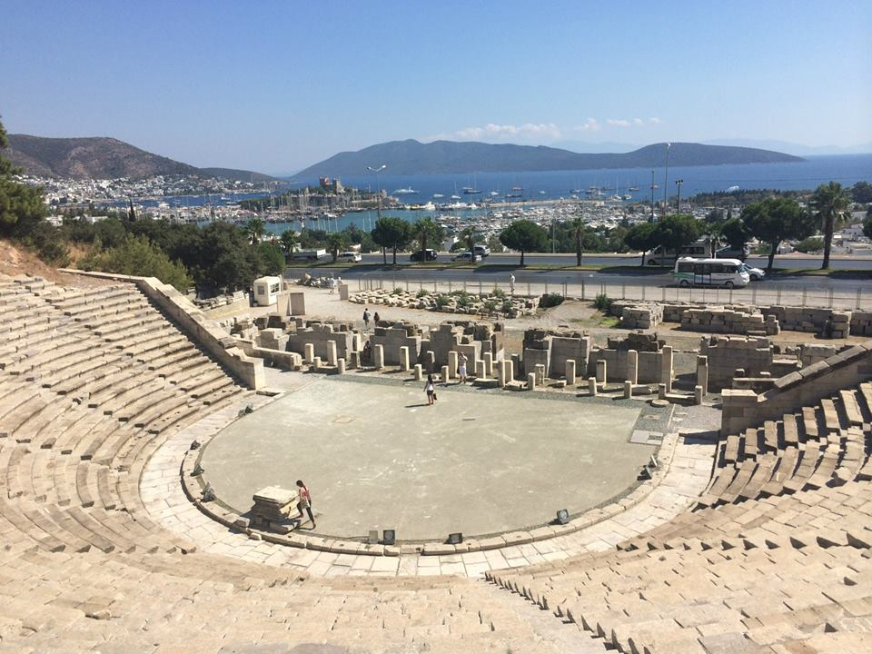 Ancient theatre in Bodrum, Turkey.